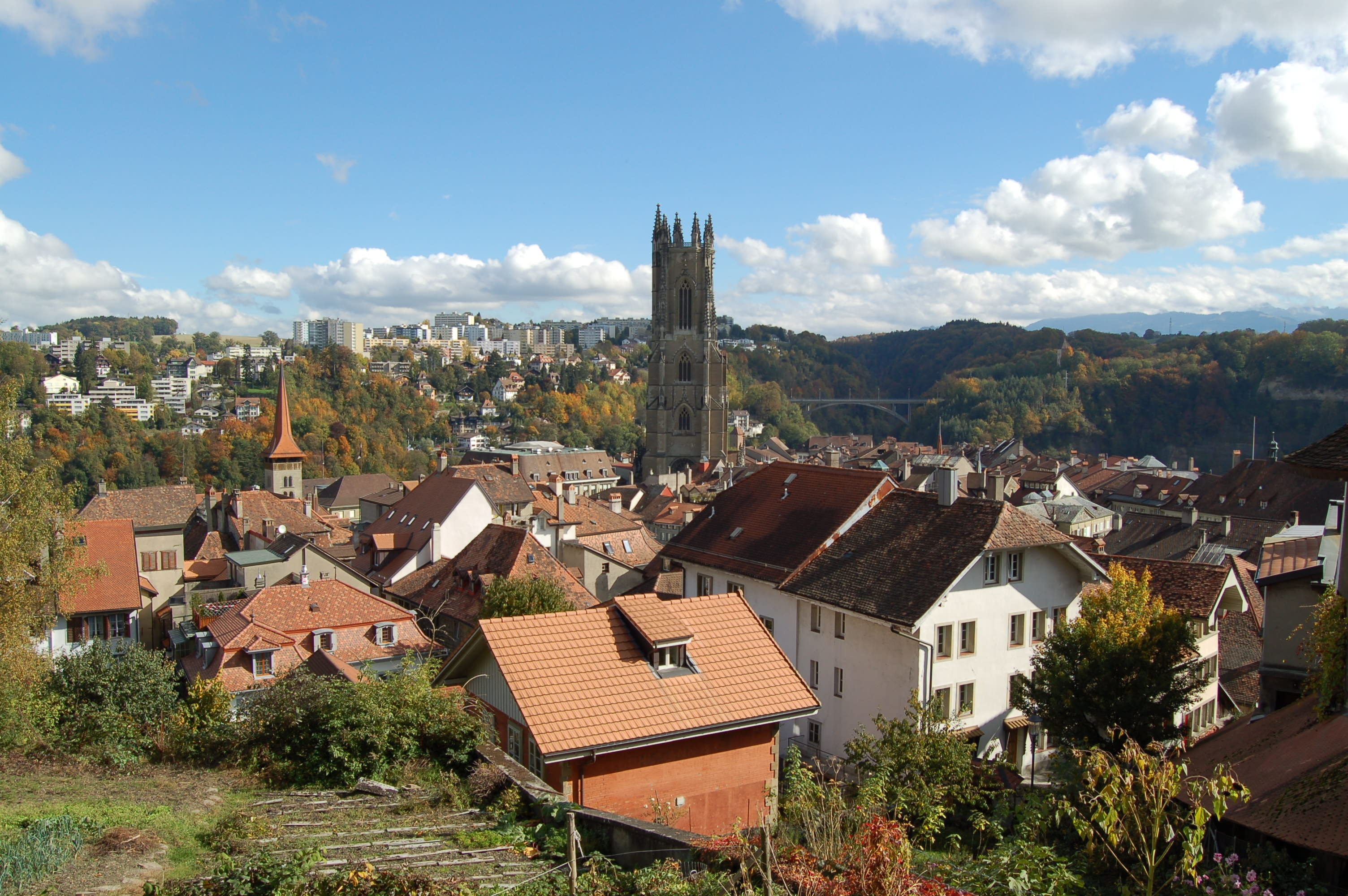 Fribourg, Switzerland